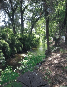 Mill Creek — flowing along the northern Redwood High School, Sierra Vista campus, in Visalia, Tulare County, California.